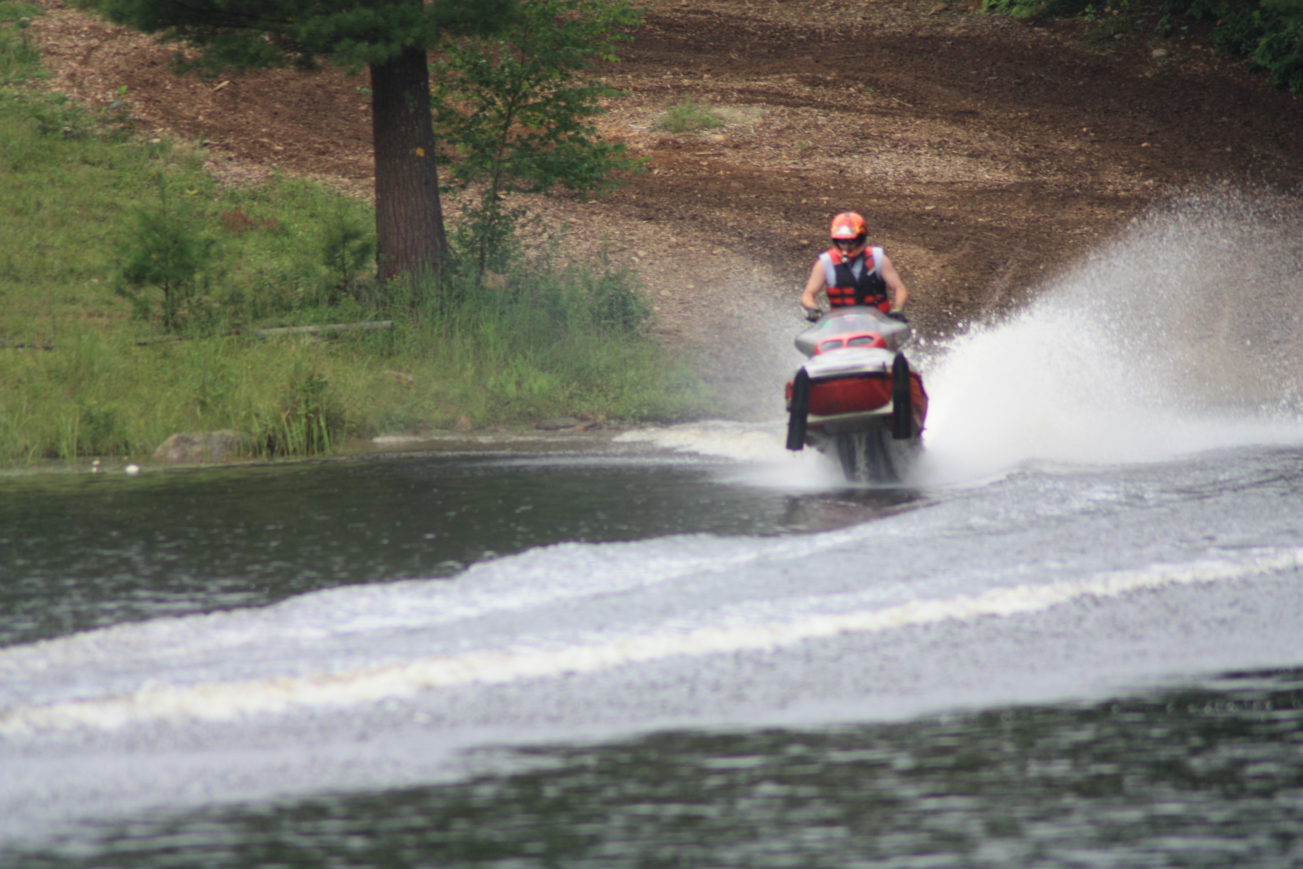 A rider doing Snowmobile skipping at Union in Connecticut.